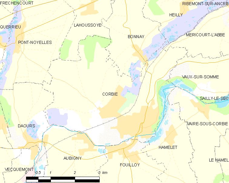 Map of French municipality Corbie